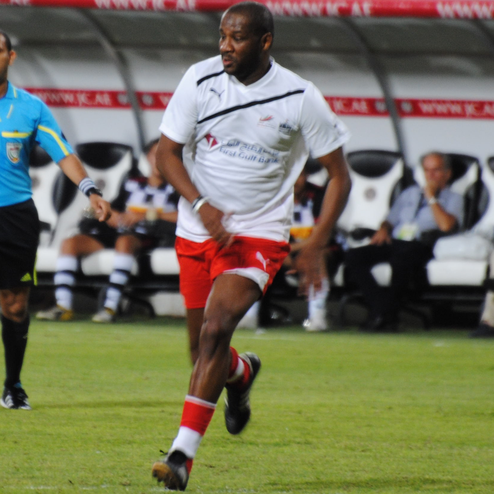 Fahad khamees former Emiratis player